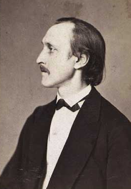 Danish organplayer and composer (1832-1909)